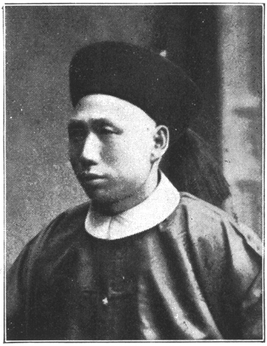 Admiral Ting Ju-chang (Ding Ruchang) photographed by photographer H.S. Mendelssohn (died 1908) when Ting travelled to Newcastle-on-Tyne in 1880 to take delivery of the Chinese cruiser Chaoyang.